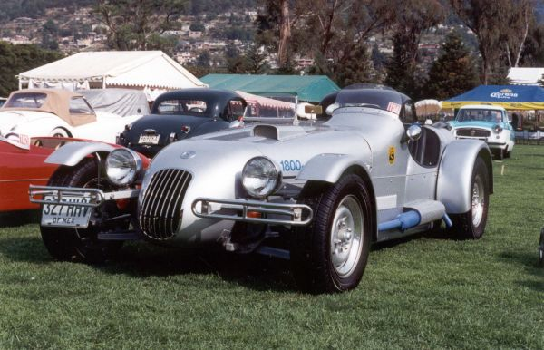 A 1996 Solana Sport Serie II.